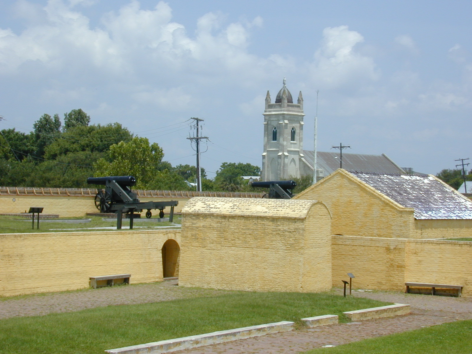 Fort Mountrie, near Charleston, the wall protecting the gun powder storage Photo by Jan Kronsell, 2002.